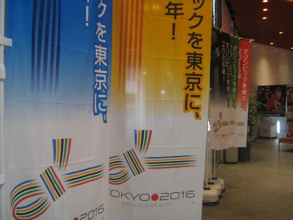 Posters at the lobby of Edo-Tokyo Museum promoting the Tokyo 2016 Olympic bid.